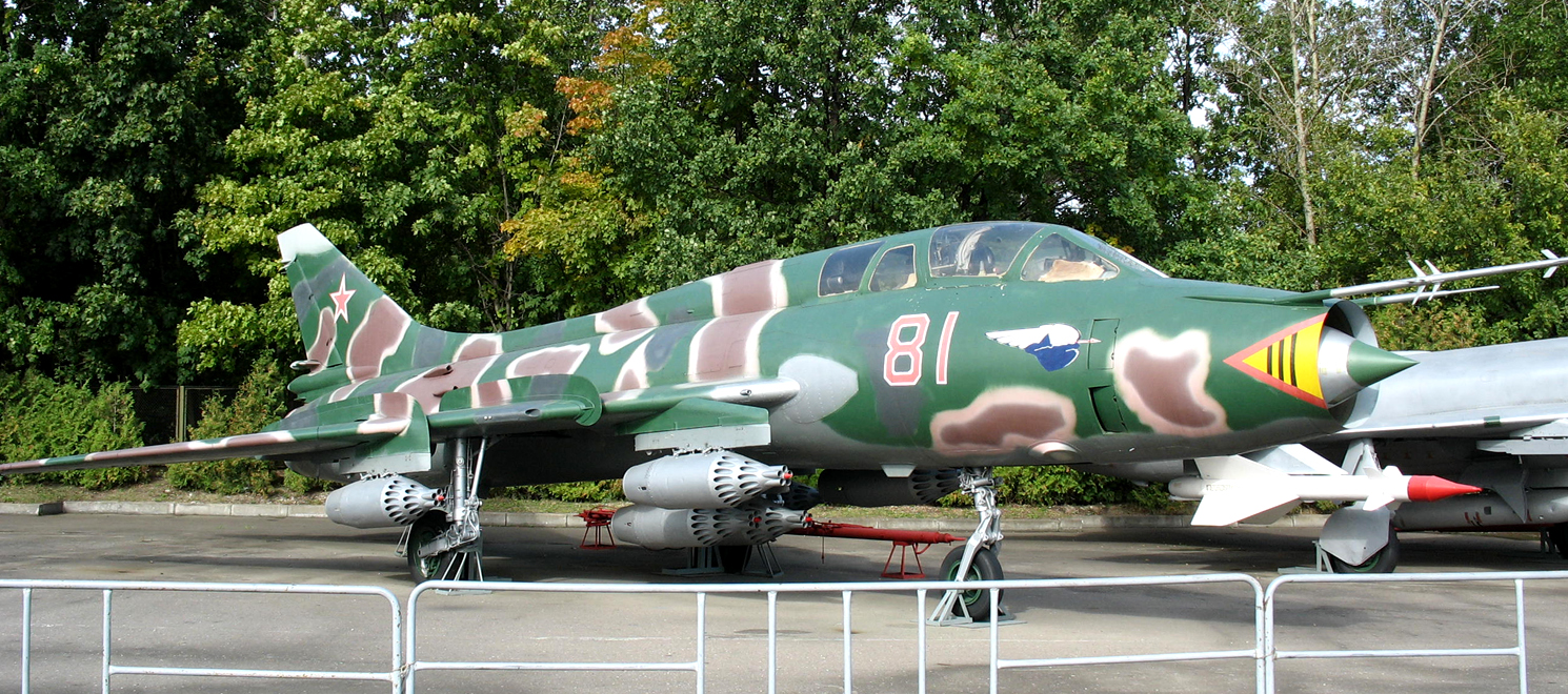 Fighter-bomber Su-17UM3 (USSR)